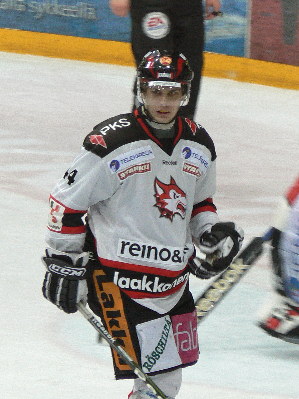 Finnish ice hockey forward Antti Kerälä playing for Joensuu Jokipojat in April, 2010.